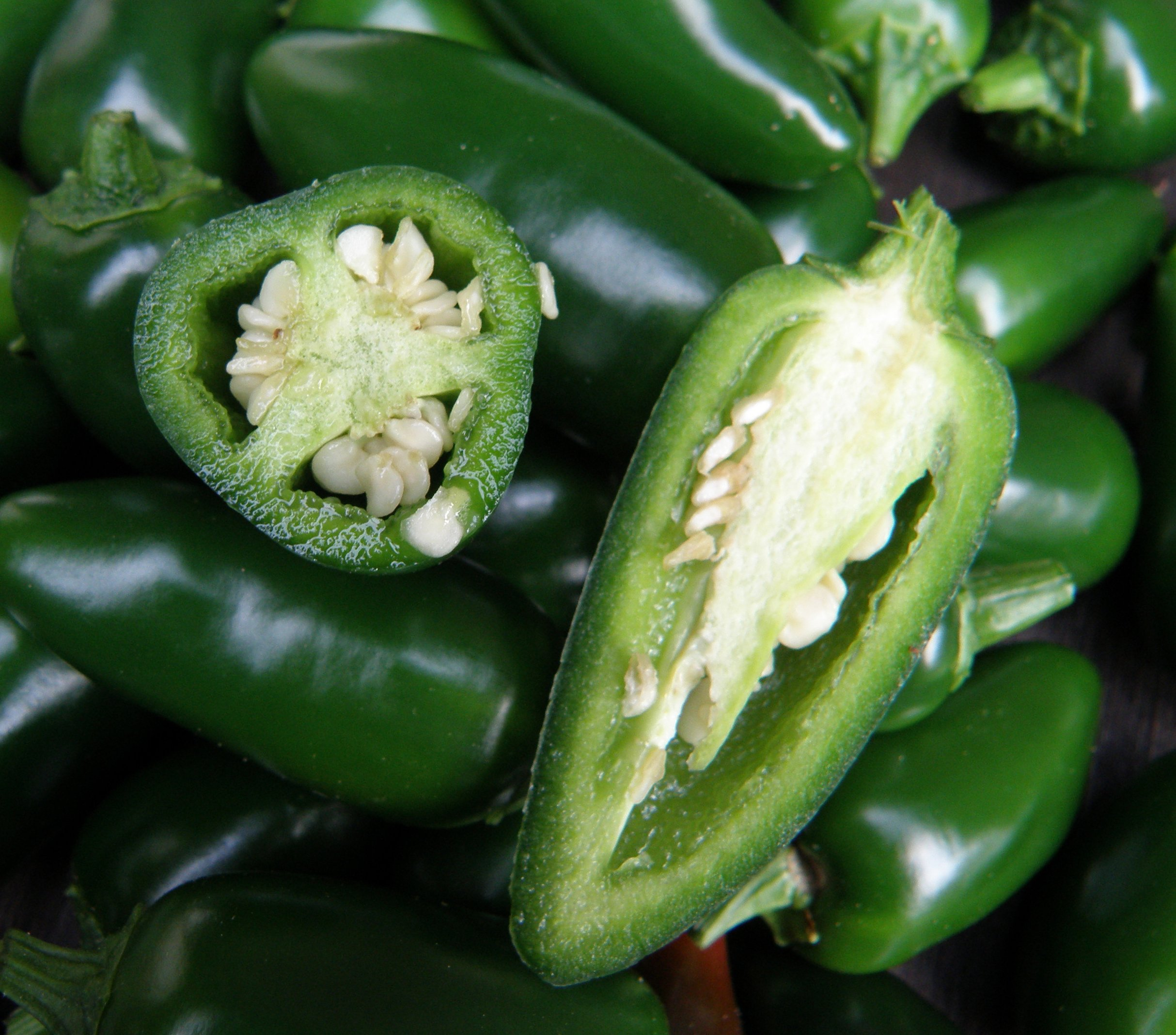 Jalapeño